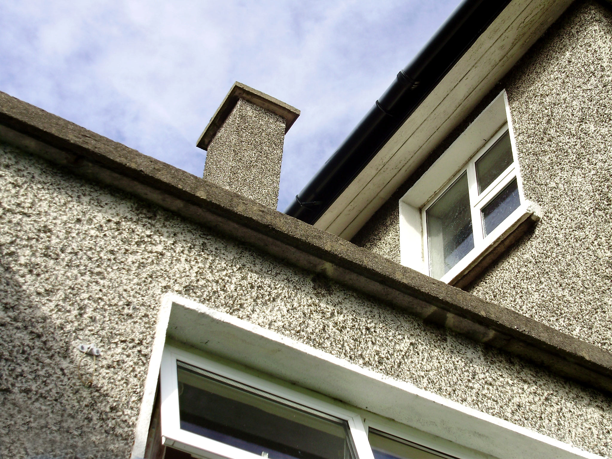 Pebbledashing—ubiquitous throughout suburban Dublin in Ireland.